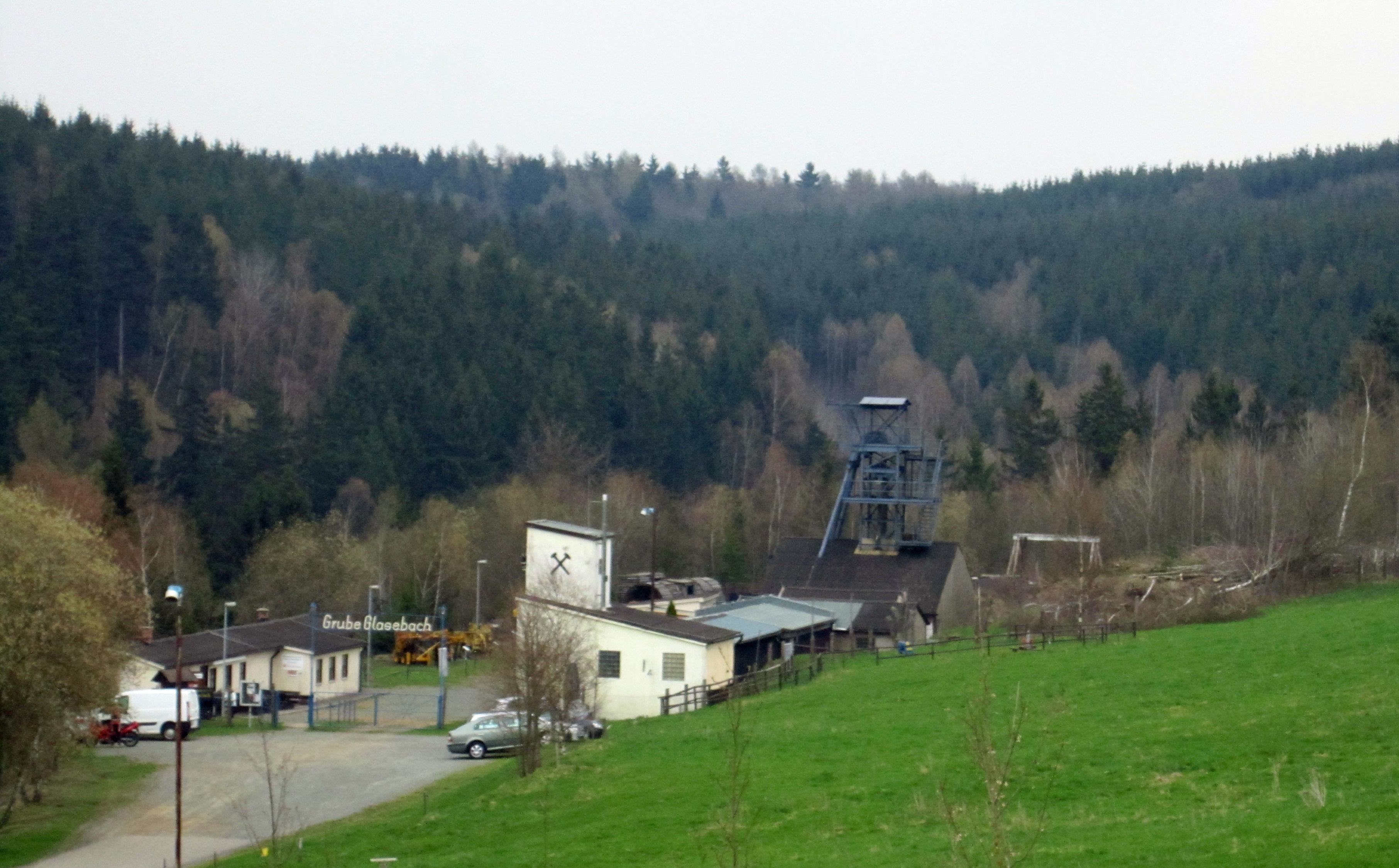 Former flourite mine Glasebach, Strassberg, municipality of Harzgerode, Saxony-Anhalt, Germany.